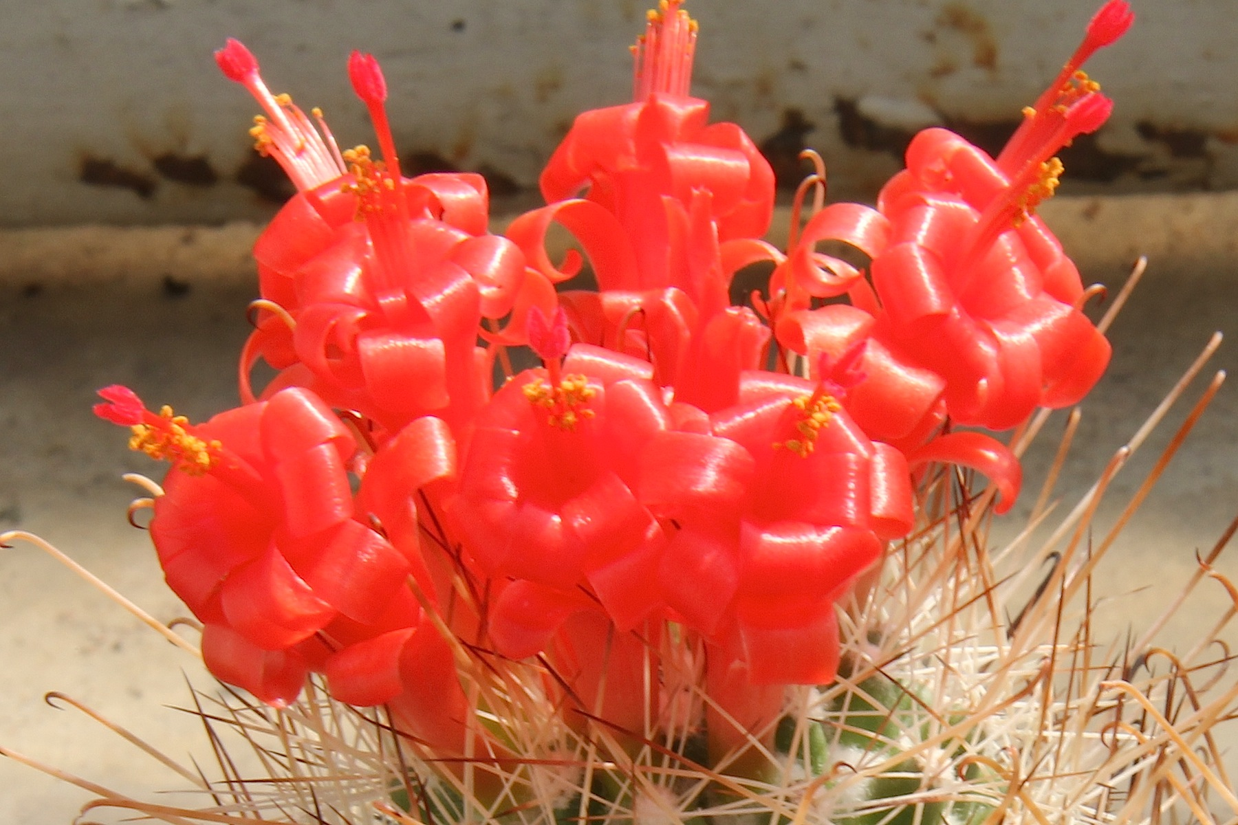 Mammillaria poselgeri